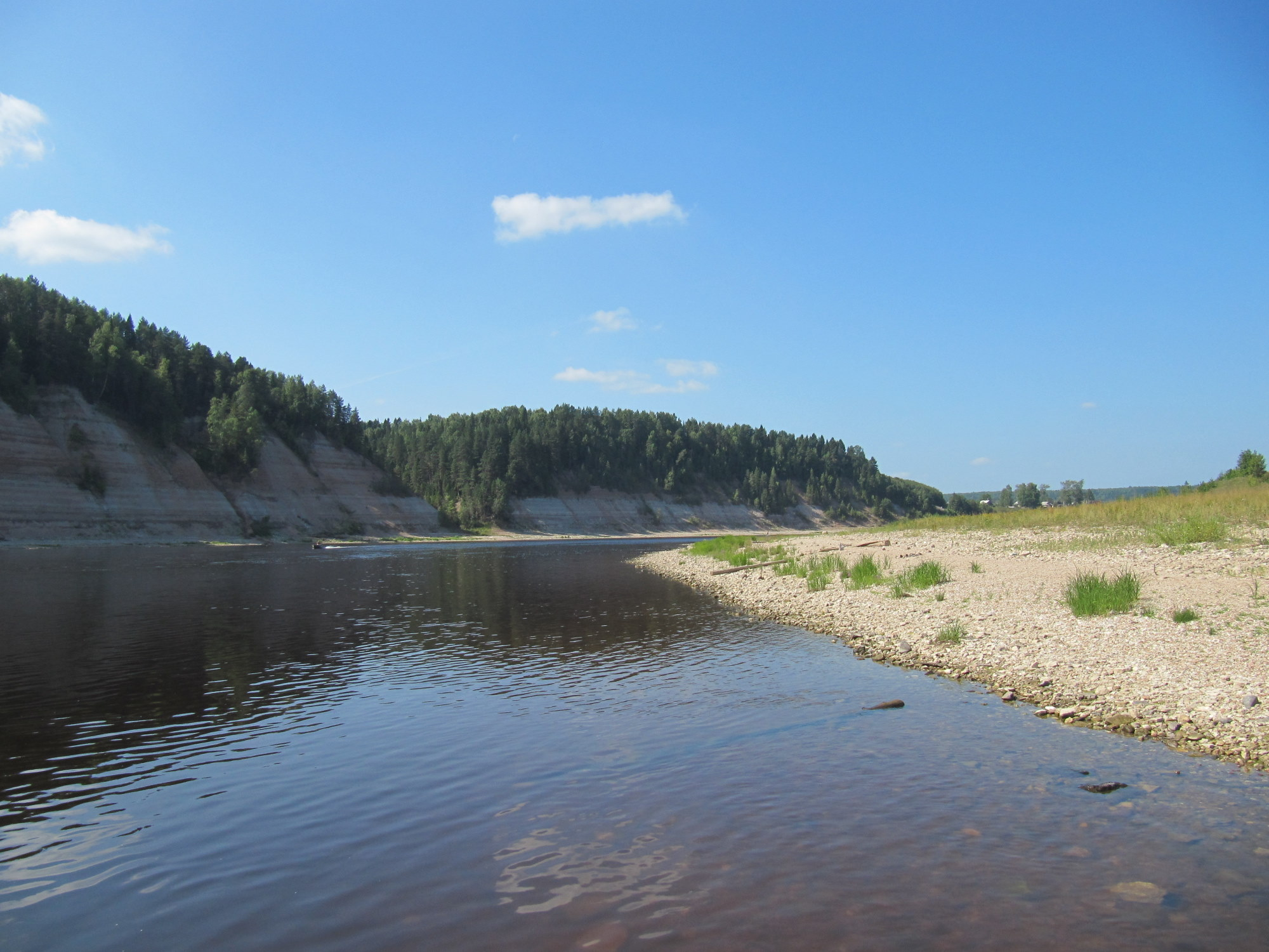 Suhona river, Opoki